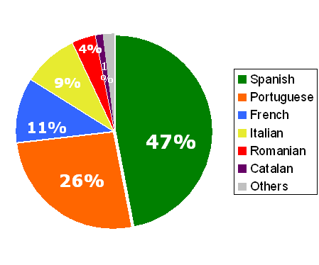 Proportion of Romance languages in the total number of Romance speakers